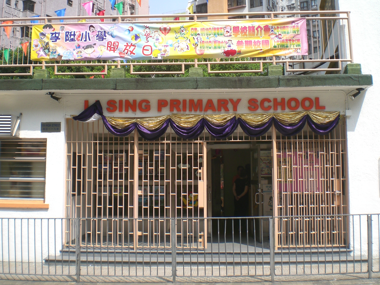 李陞小學2008年9月13日(星期六)開放日